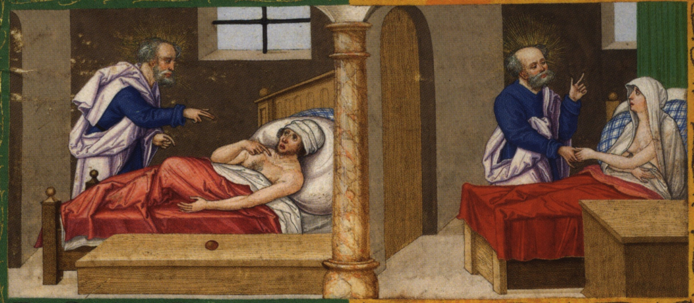 Page 238v: St. Peter heals Aeneas / St. Peter raised Tabitha from the dead, Act 5:12-18